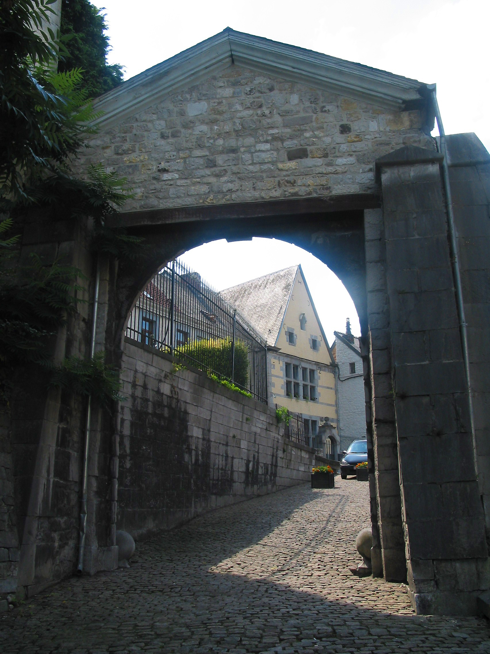 Andenne (Belgium), the previous door of the "Chapter".